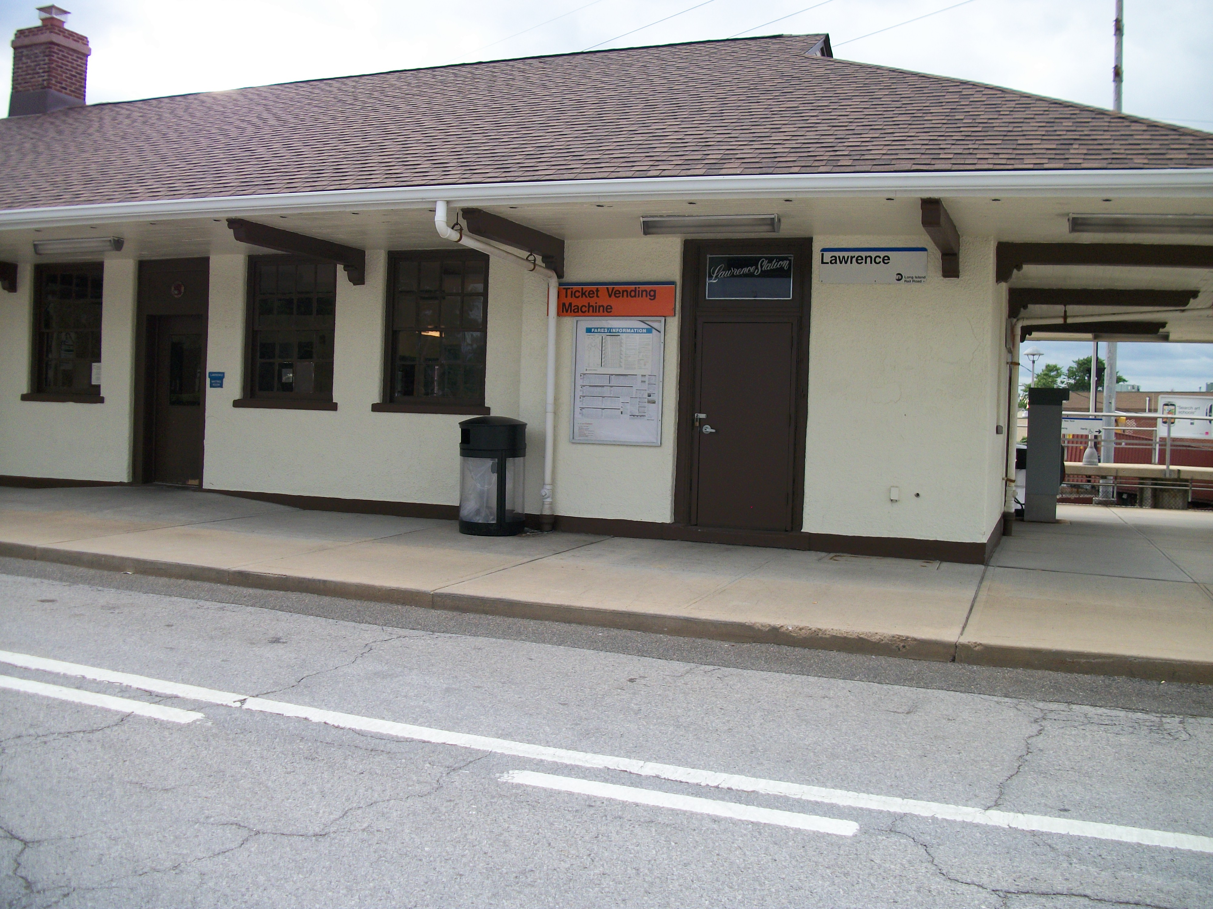 Parking lot view of the stenciled glass next to the standard modern LIRR sign over the entrance to Lawrence (LIRR station) in Lawrence, Nassau County, New York.